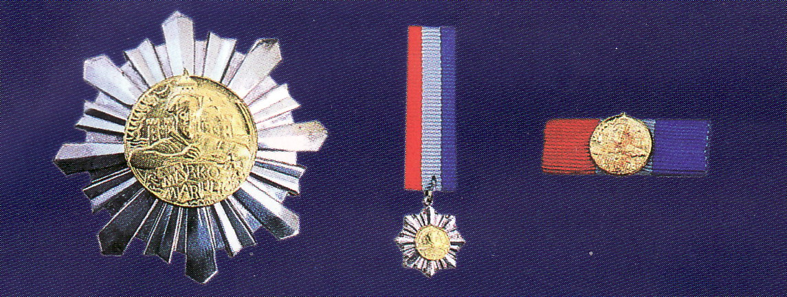 Badge and Ribbon of Order of Danica Hrvatska with the face of Marko Marulić